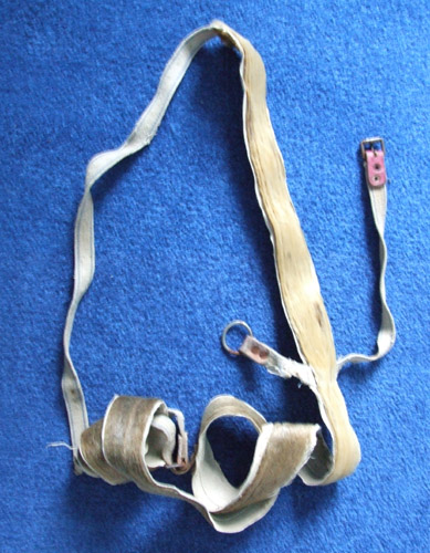 Original Seal Skins for Ski touring, c.1950s